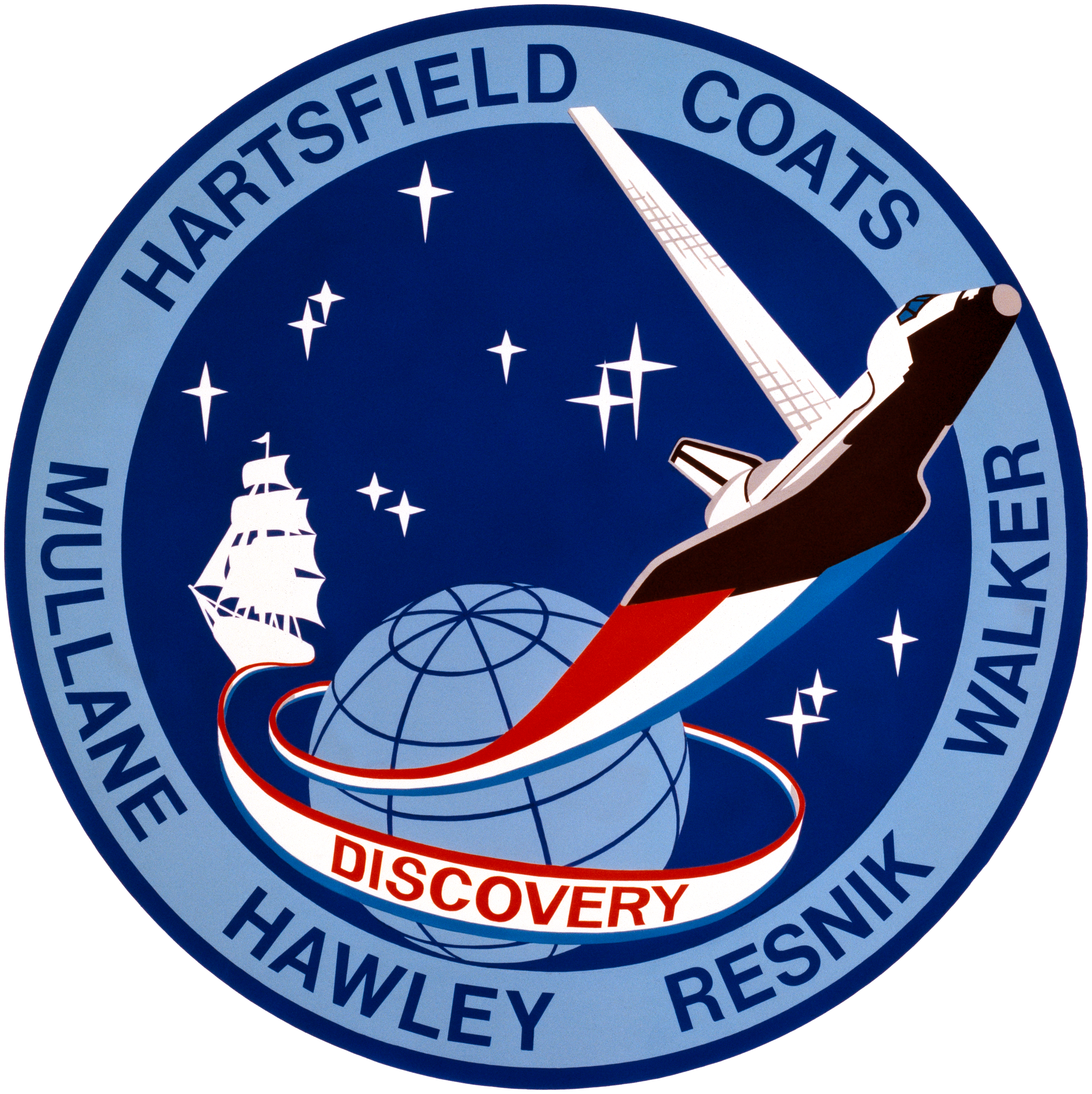 STS-41D Mission Insignia The official mission insignia for the 41-D Space Shuttle flight features the Discovery - NASA's third orbital vehicle - as it makes its maiden voyage. The ghost ship represents the orbiter's namesakes which have figured prominently in the history of exploration. The Space Shuttle Discovery heads for new horizons to extend that proud tradition. Surnames for the crewmembers of NASA's eleventh Space Shuttle mission encircle the red, white, and blue scene.